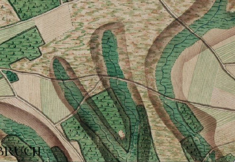 Schorels castle in the sector of Wahl, Luxembourg, on the map of Ferraris.